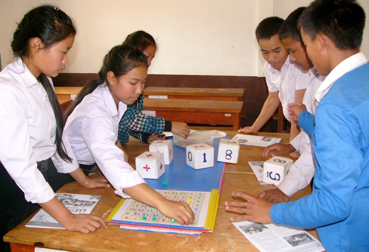 Number literacy, or numeracy, consists of many skills. An essential element is the ability to automatically do simple arithmetic operations, thus freeing brain and memory power to work on a higher level. Number bingo makes it fun for students to practice and improve their math skills. They roll 3 dice, and combine the numbers with basic math symbols (plus and minus; other operations can be added once those are mastered) to make a number. They cover that number on the board. The first team to get four in a row is the winner.